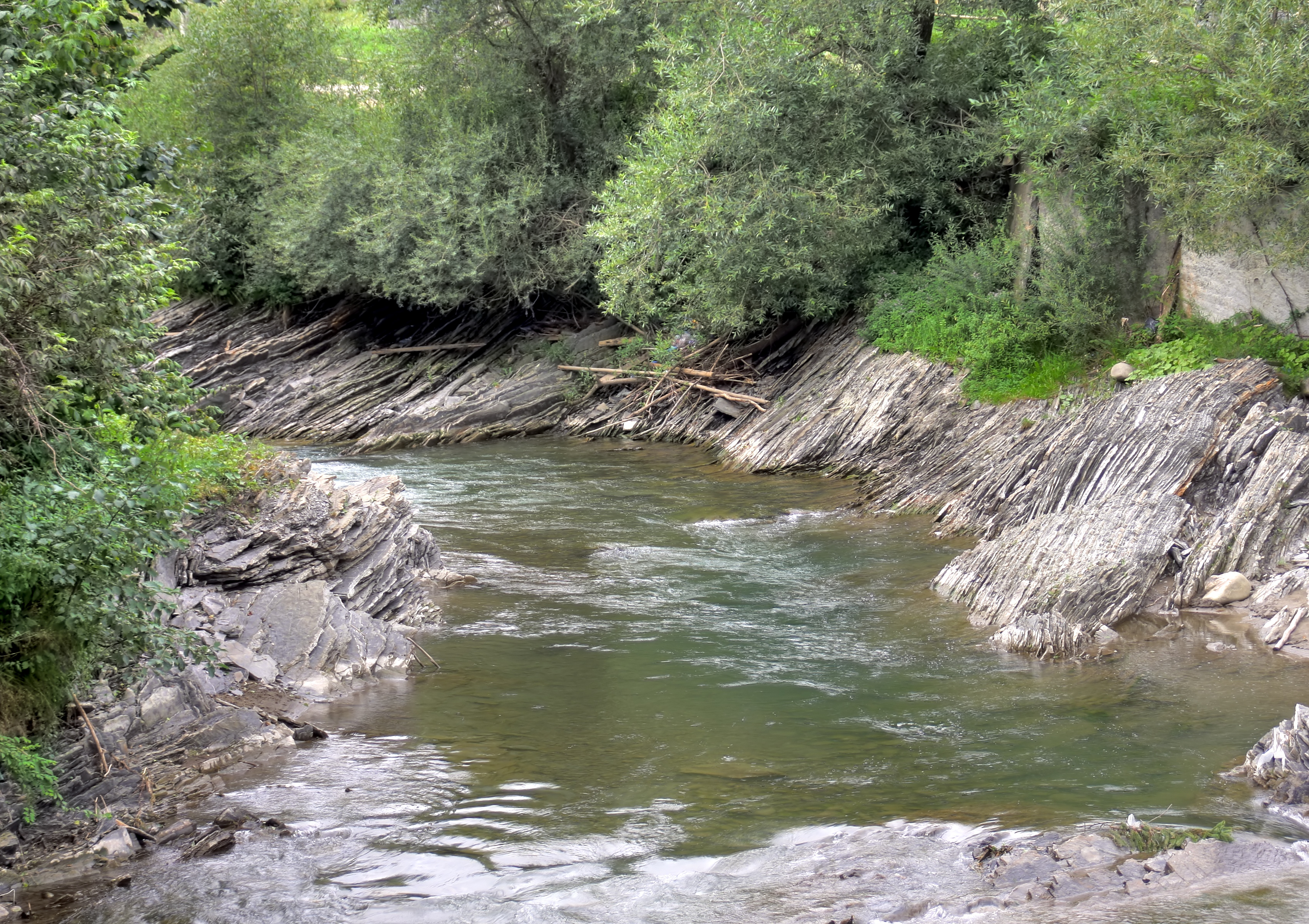 Chorna Tysa river at Chorna Tysa, Rakhiv Raion, Ukraine.